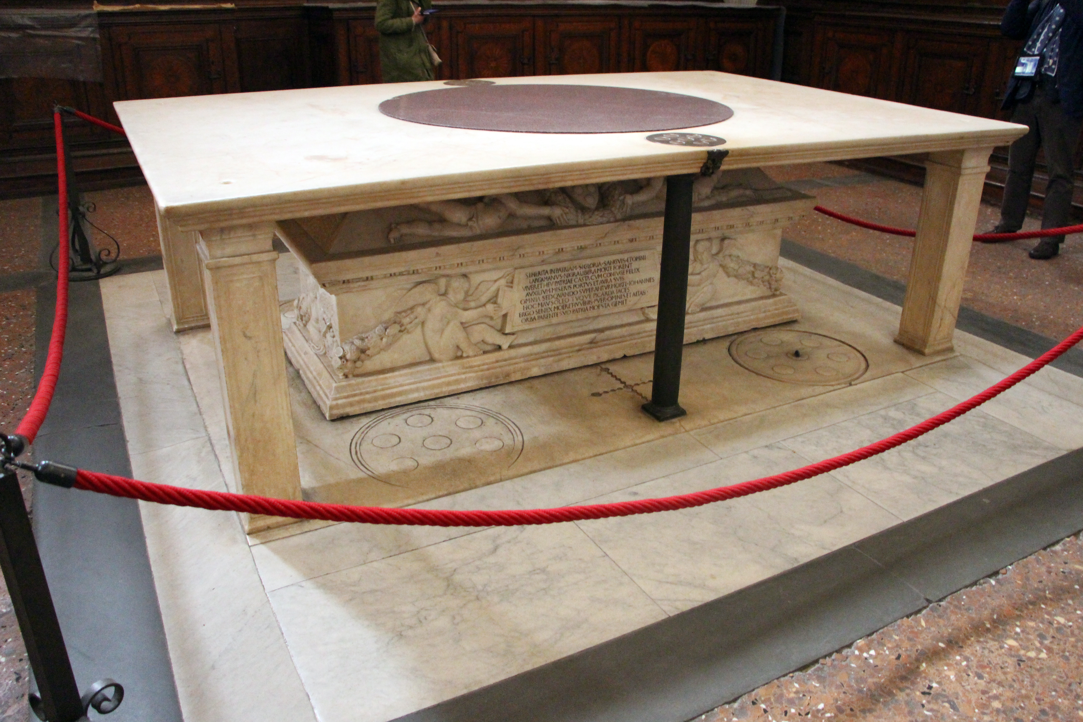 Giovanni di Bicci's and Piccarda Bueri's tomb